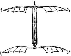 Alphonse Pénaud's 1870 model helicopter.